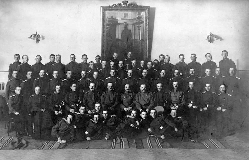 Yunker Military School in Vladimir1916